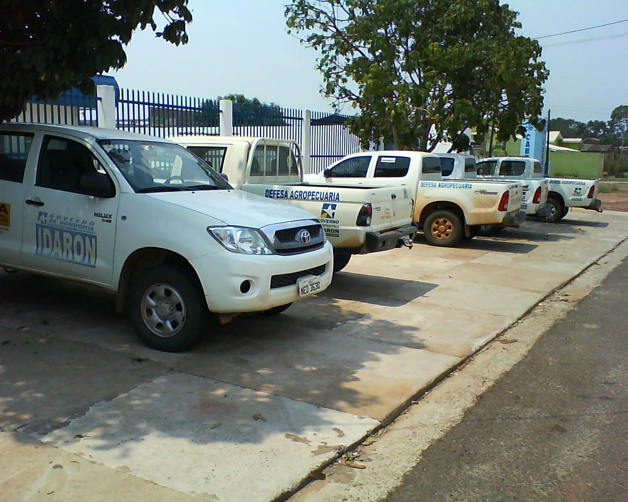 Several cars of IDARON, during a meeting at regional Pimenta Bueno